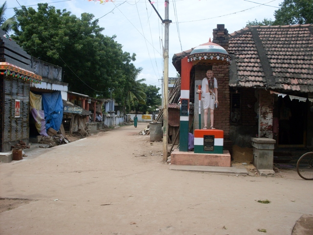 Mallavolu Center Gandhi Statue